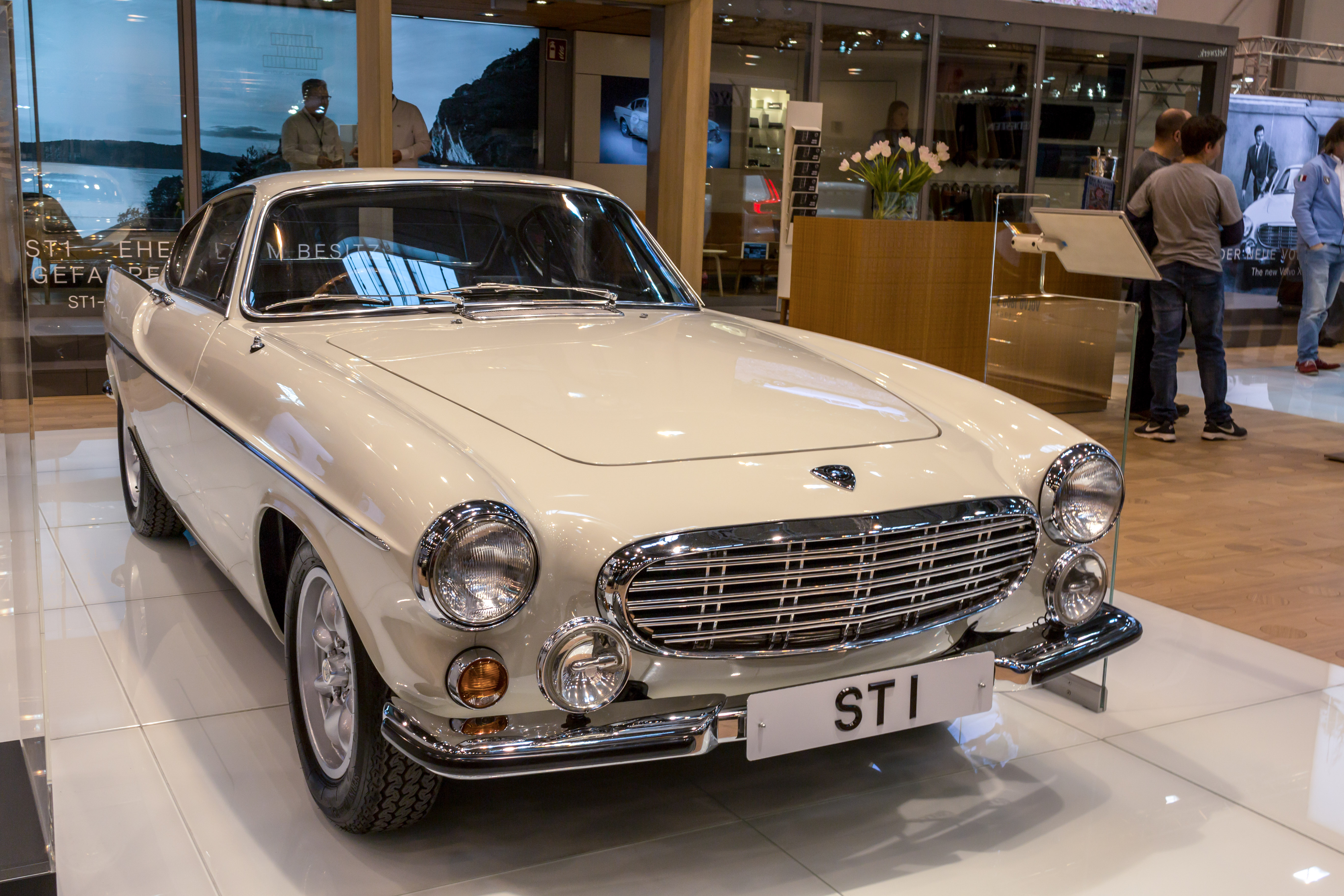 Techno Classica 2018, Essen